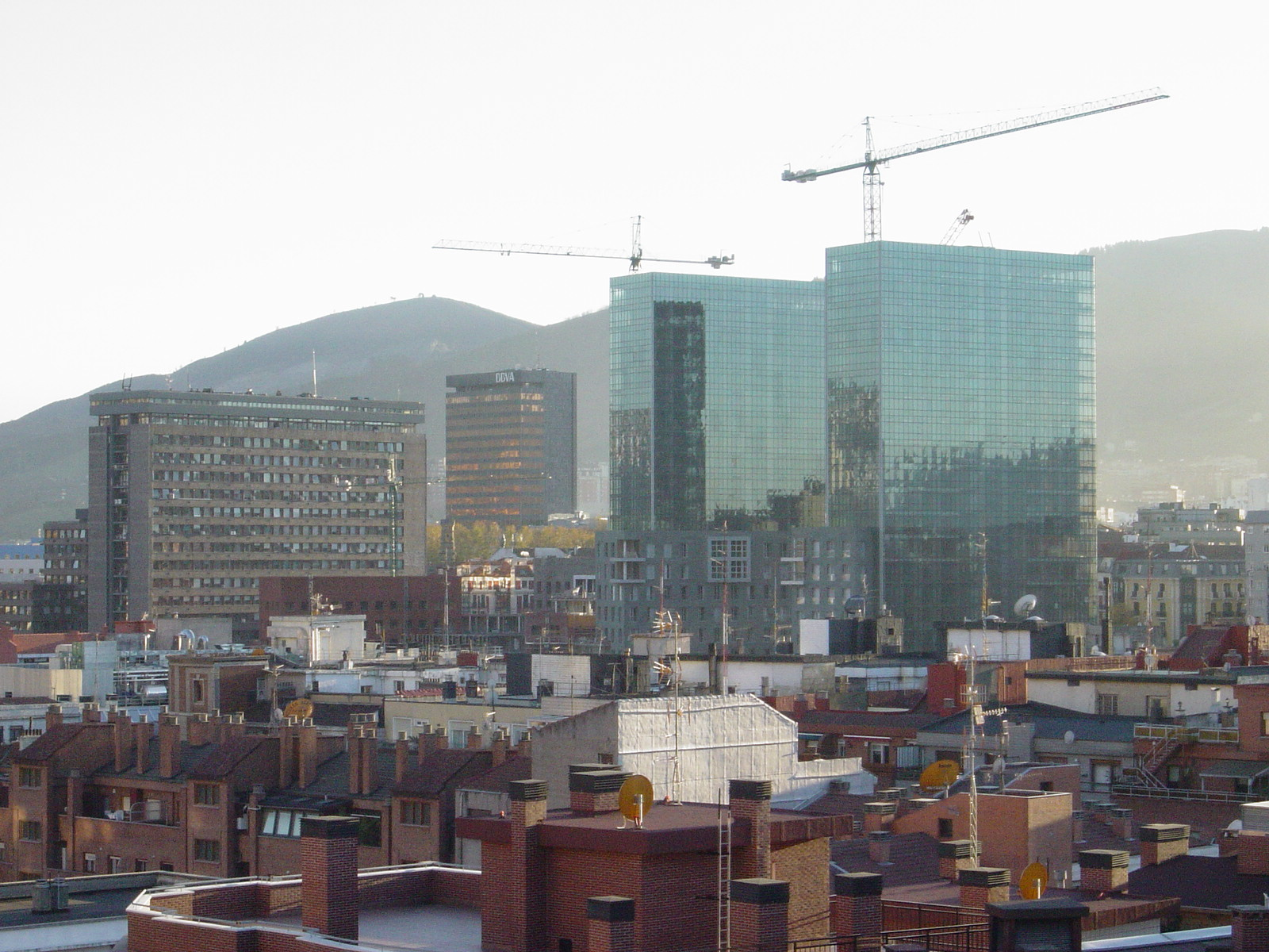 Skyline of Bilbao. In the foreground, roofs of Campo Volantín; in the center, tower of Banco Bilbao Vizcaya Argentaria; at the right Isozaki Atea twin towers